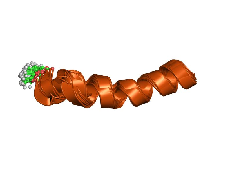 Cartoon representation of the molecular structure of protein registered with 1fi0 code.